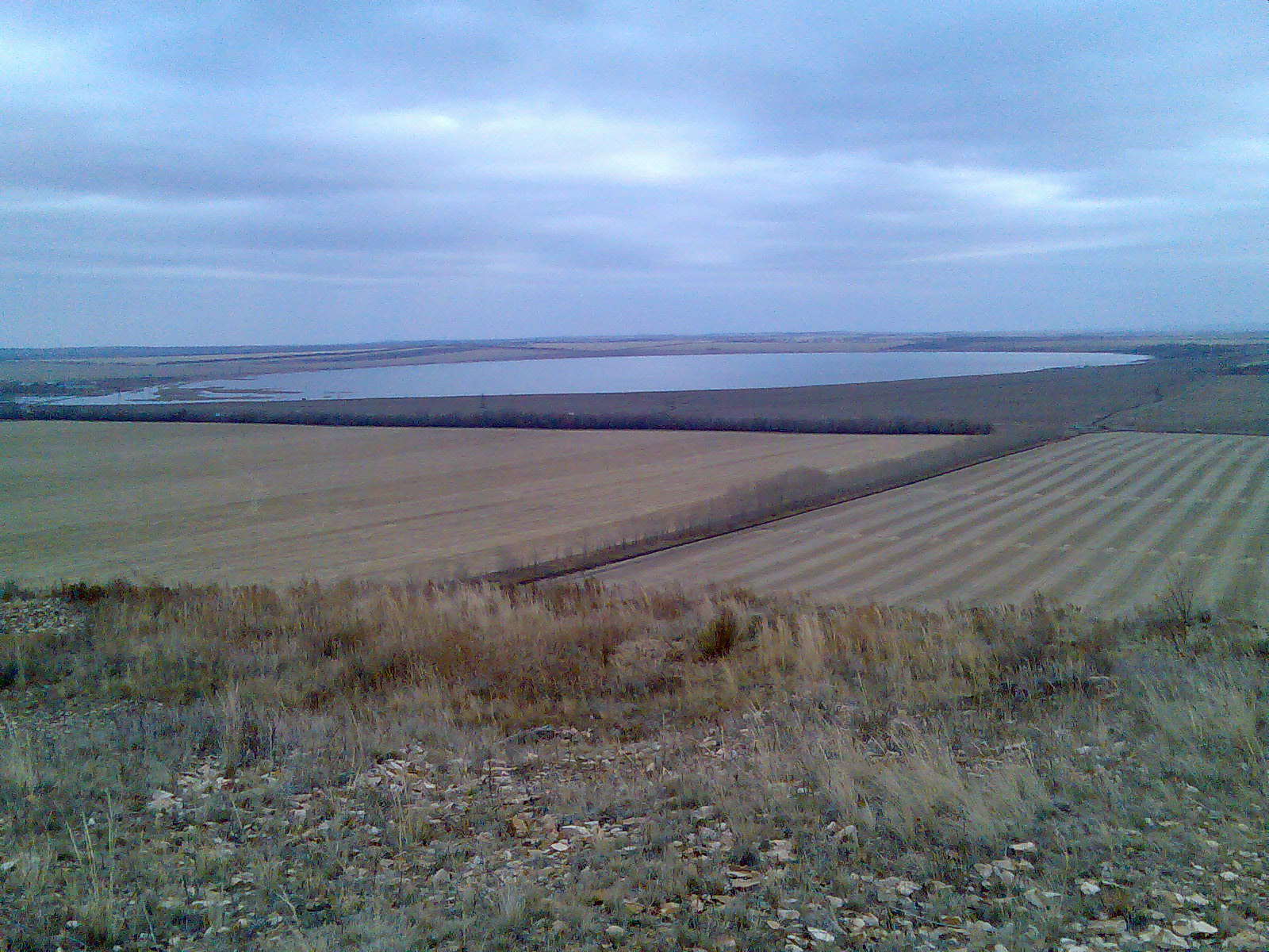 L. Muldakkul in Abzelilovsky District, view from mt. Muldak-Tau